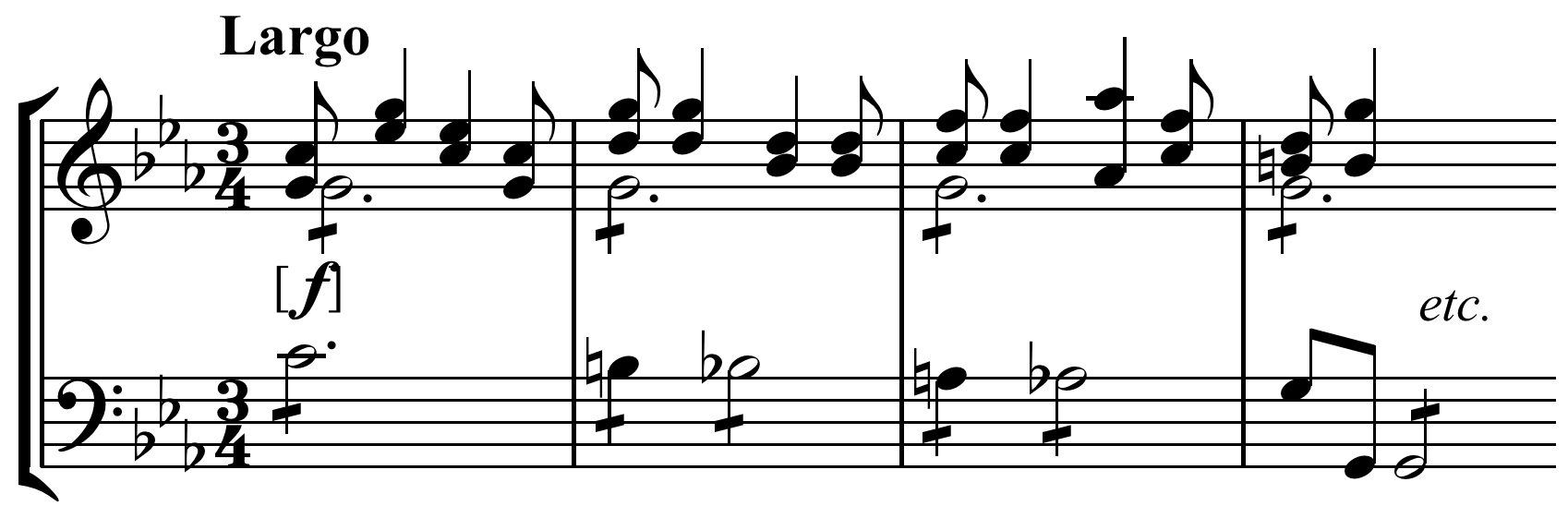 Lament bass from Vivaldi's motet "O qui coeli terraeque serenitas" RV 631, Aria No. 2. Created by Hyacinth (talk) 05:08, 19 April 2010 using Sibelius 5.